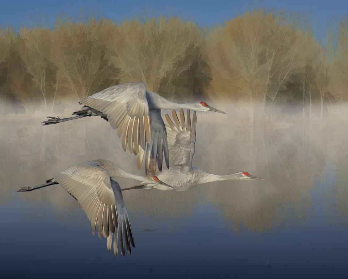 Grus canadensis in flight in Bosque del Apache National Wildlife Refuge.